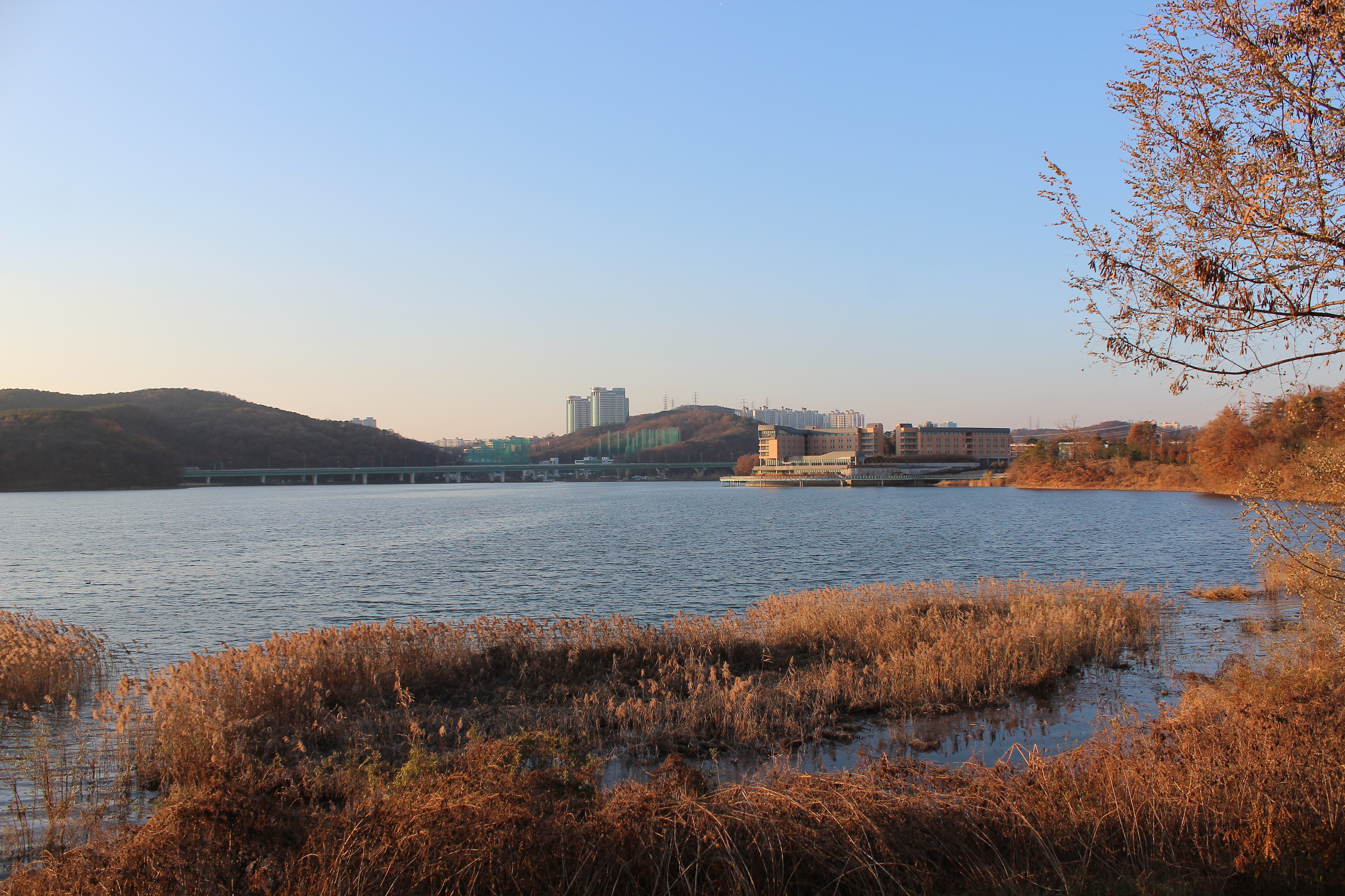 Maemi Mountain(left) and Chongmyung Mountain(right) from the view of Gihung Lake